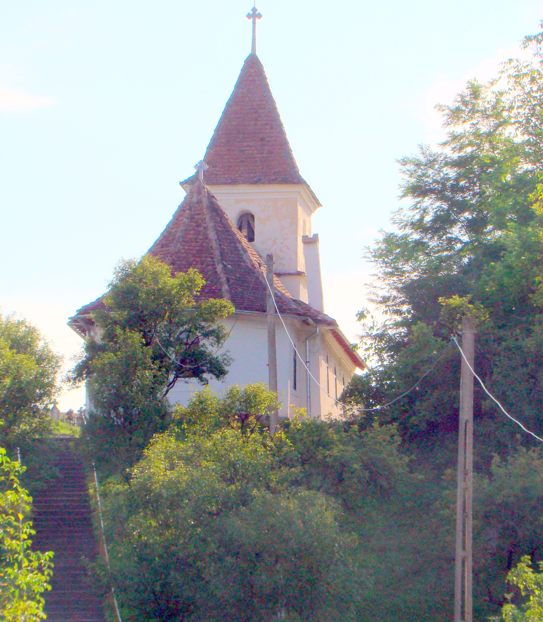 Orthodox church in Criț, Brașov County, Romania